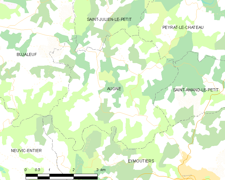 Map of French municipality Augne